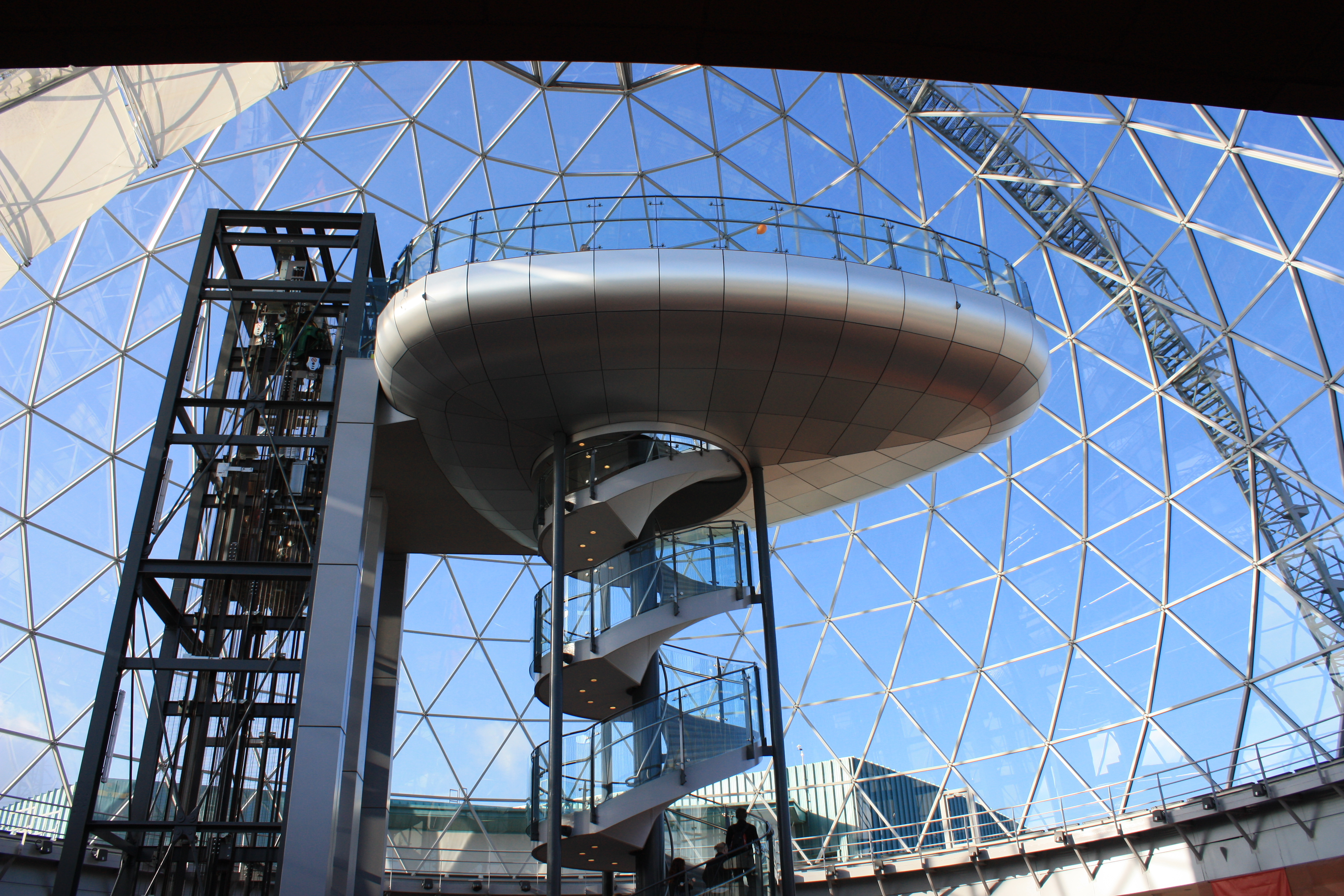 Victoria Square, Belfast, Northern Ireland, October 2009